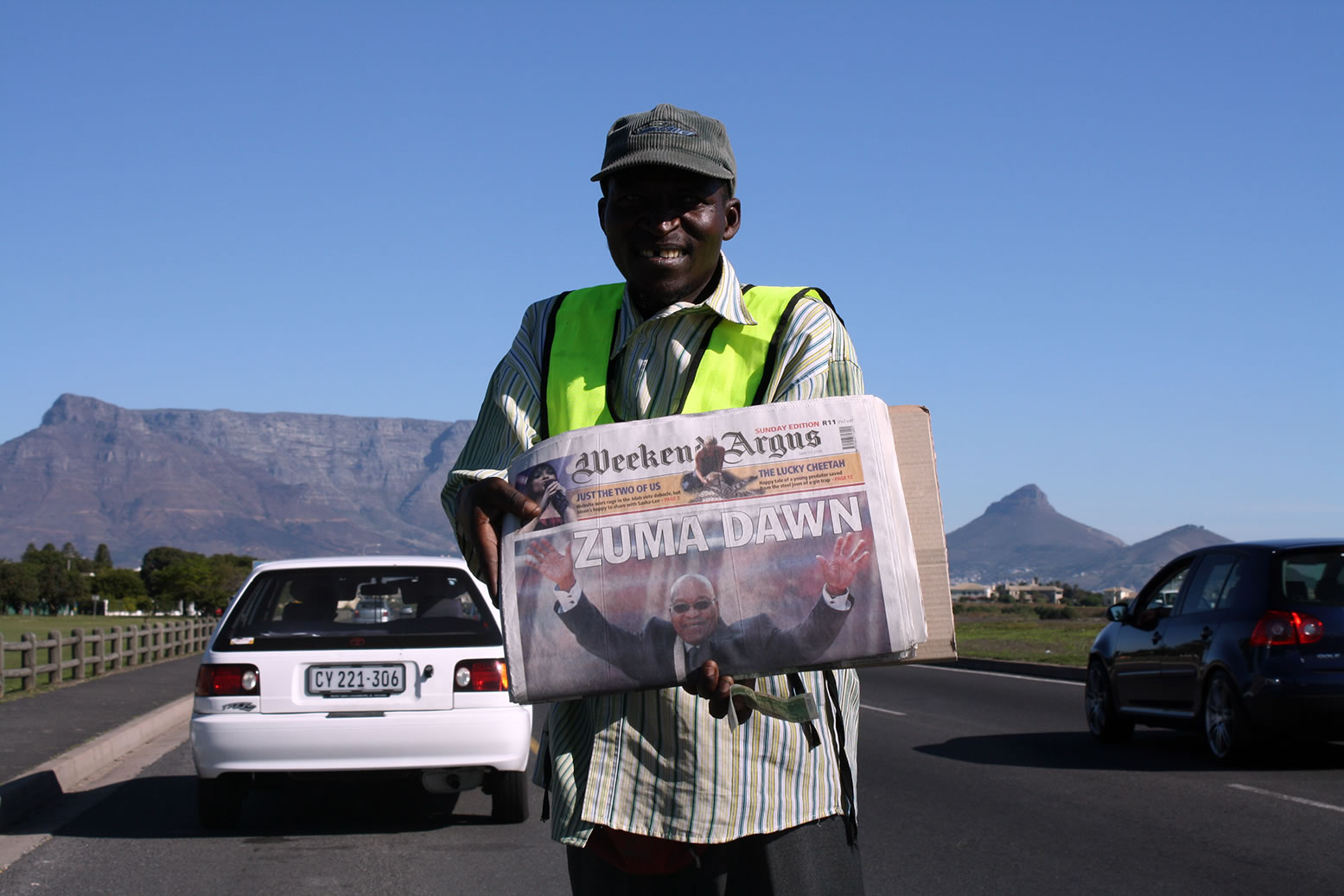 On the day following his presidential innauguration, Jacob Zuma's photo appears across the front page of the Sunday edition of the Weekend Argus.